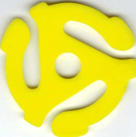 scanned image of a 45 rpm adapter by lynx305.